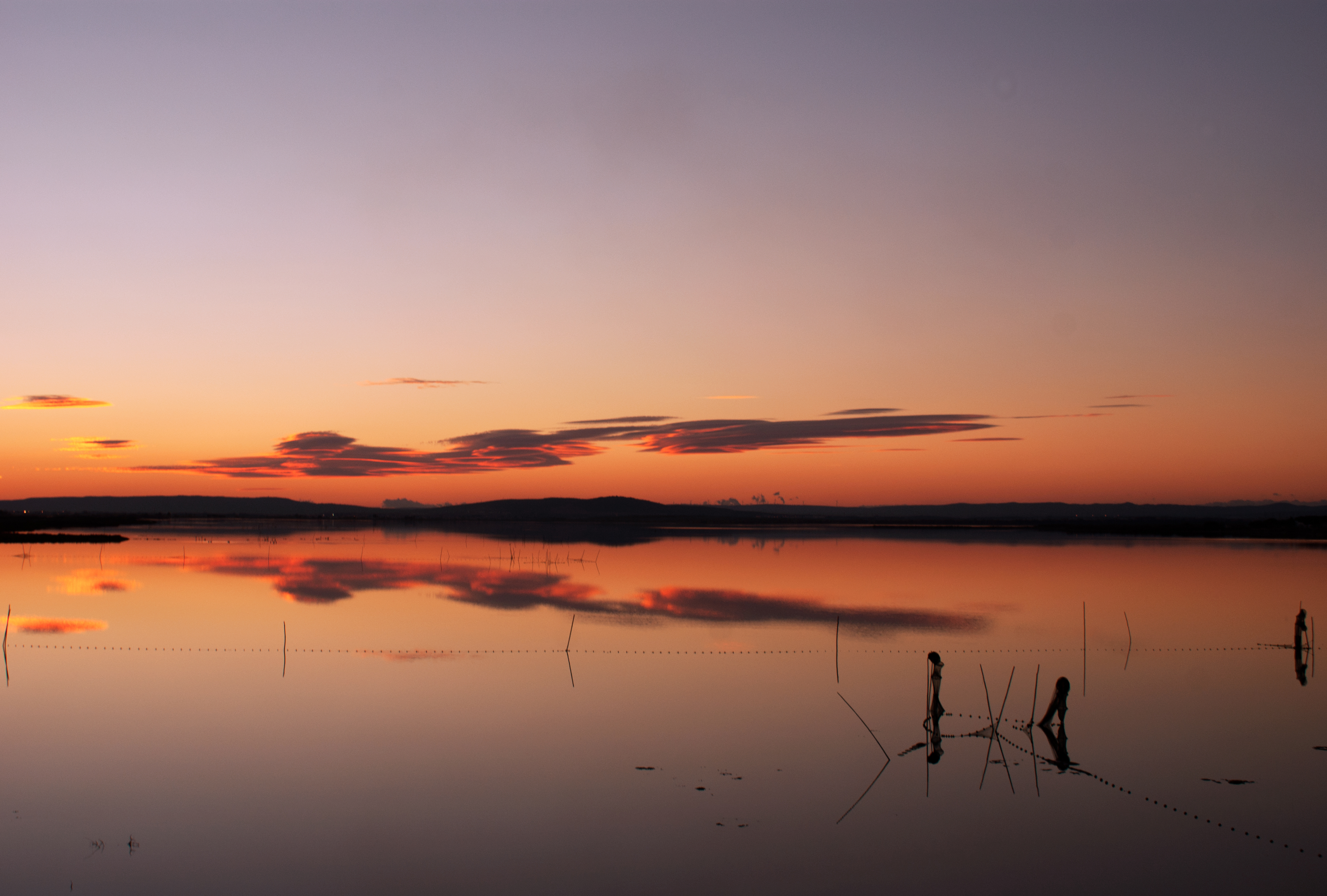 Carnon-Plage, Mauguio, France